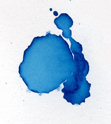 Ink Stained Paper and Grunge textures by Design Shard the design blog. See the blog post to download these textures:20 Free Original Hi-Res Ink Stained Paper Textures Use them for free , Commercial and non Commercial, no credits needed Feel free to follow me on Twitter for more design related tweets